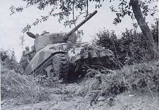 Tank, modified with iron teeth, cuts through the bocage.